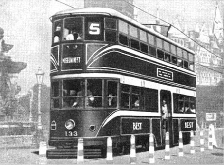 Double Decker Electric Trams operated by BEST in 1920's .